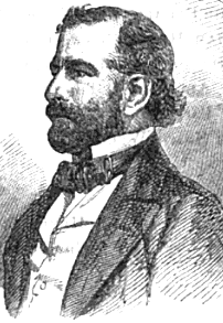 Portrait of author George Samuel Measom (1818-1901)